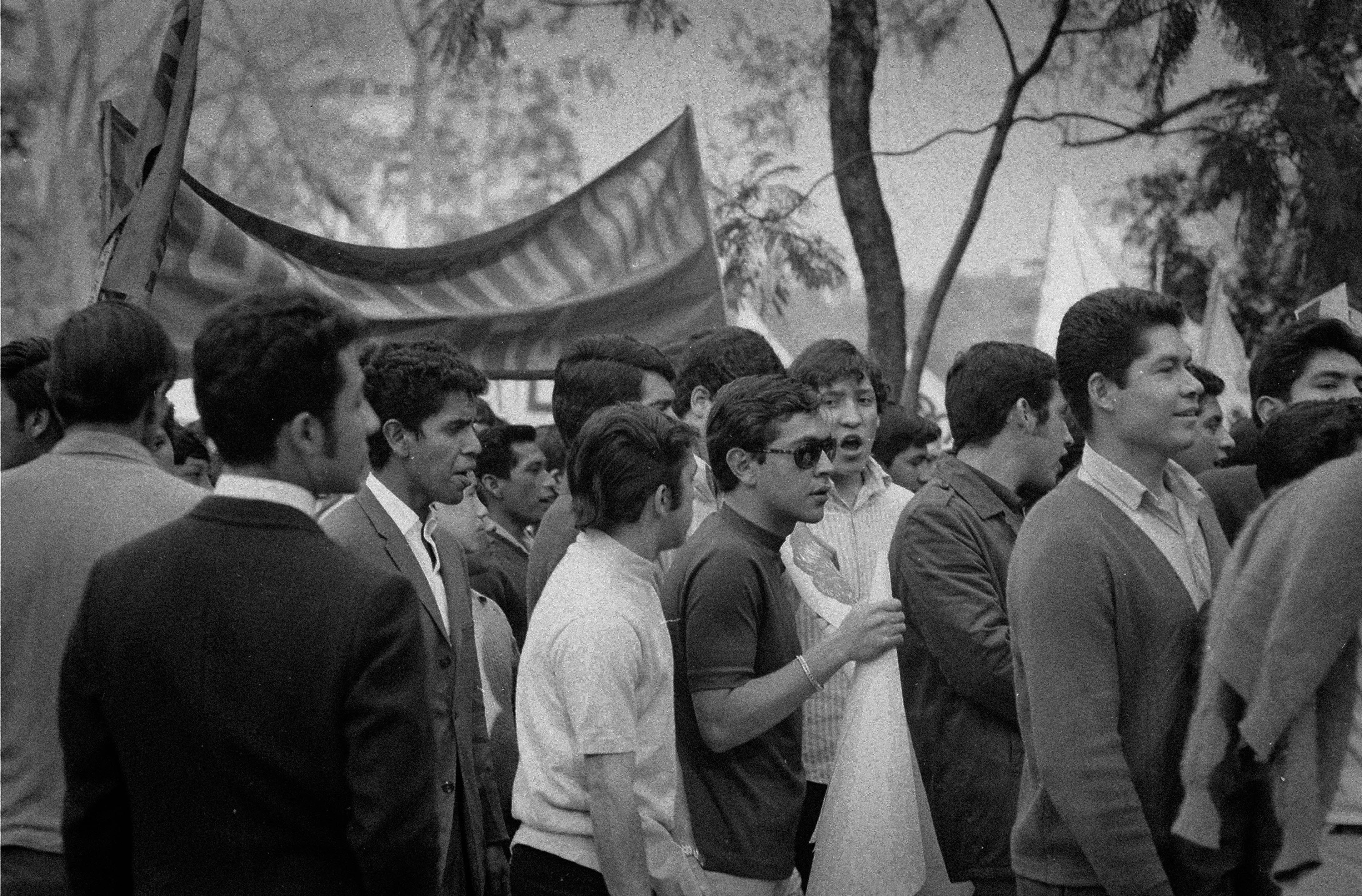 Images of Mexico City Student Movement, October 1968.